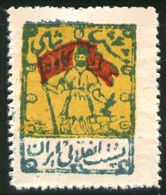 Stamp of Persian Soviet Socialist Republic (Gilyan Republic), 1920